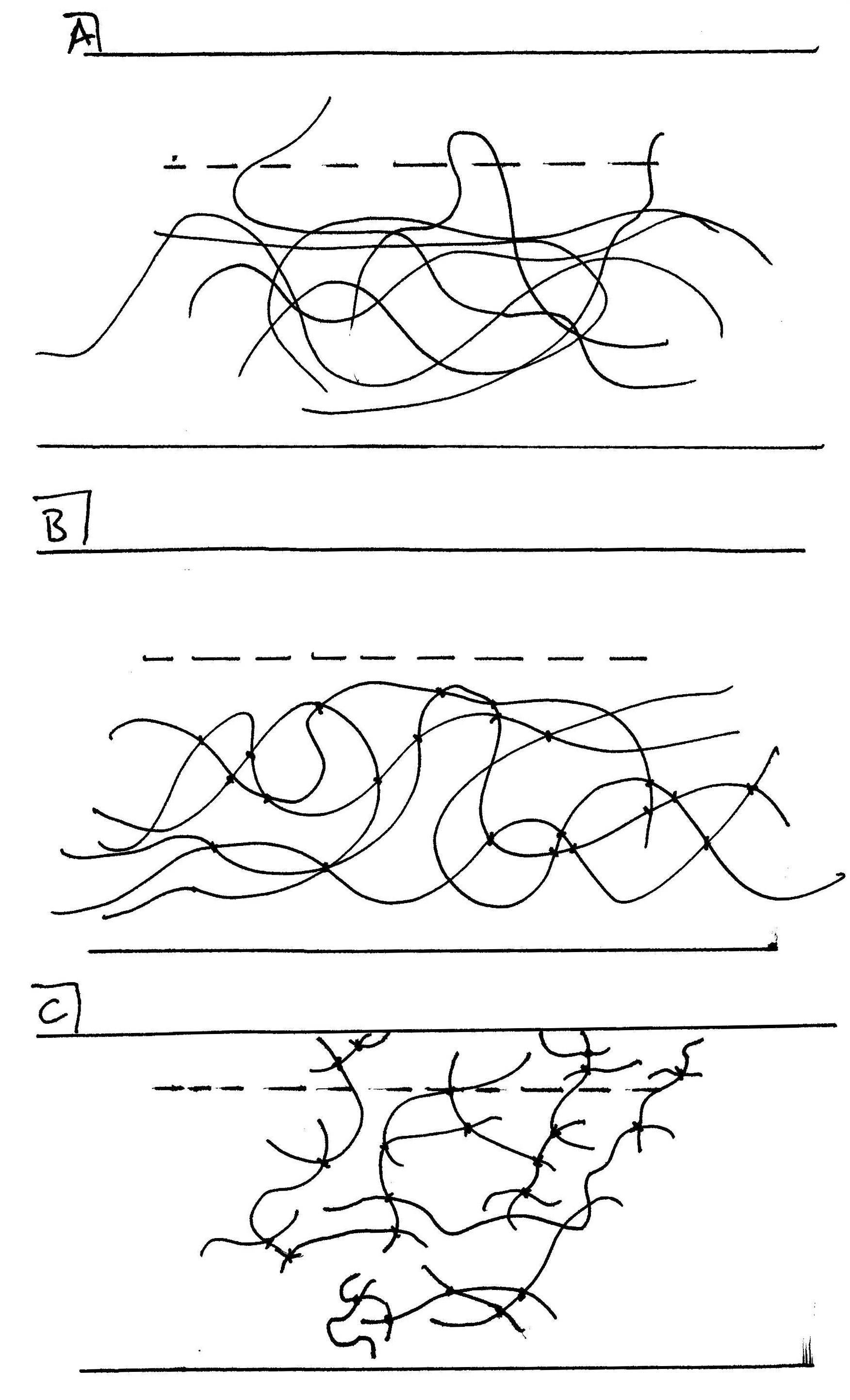 interdigitatioin